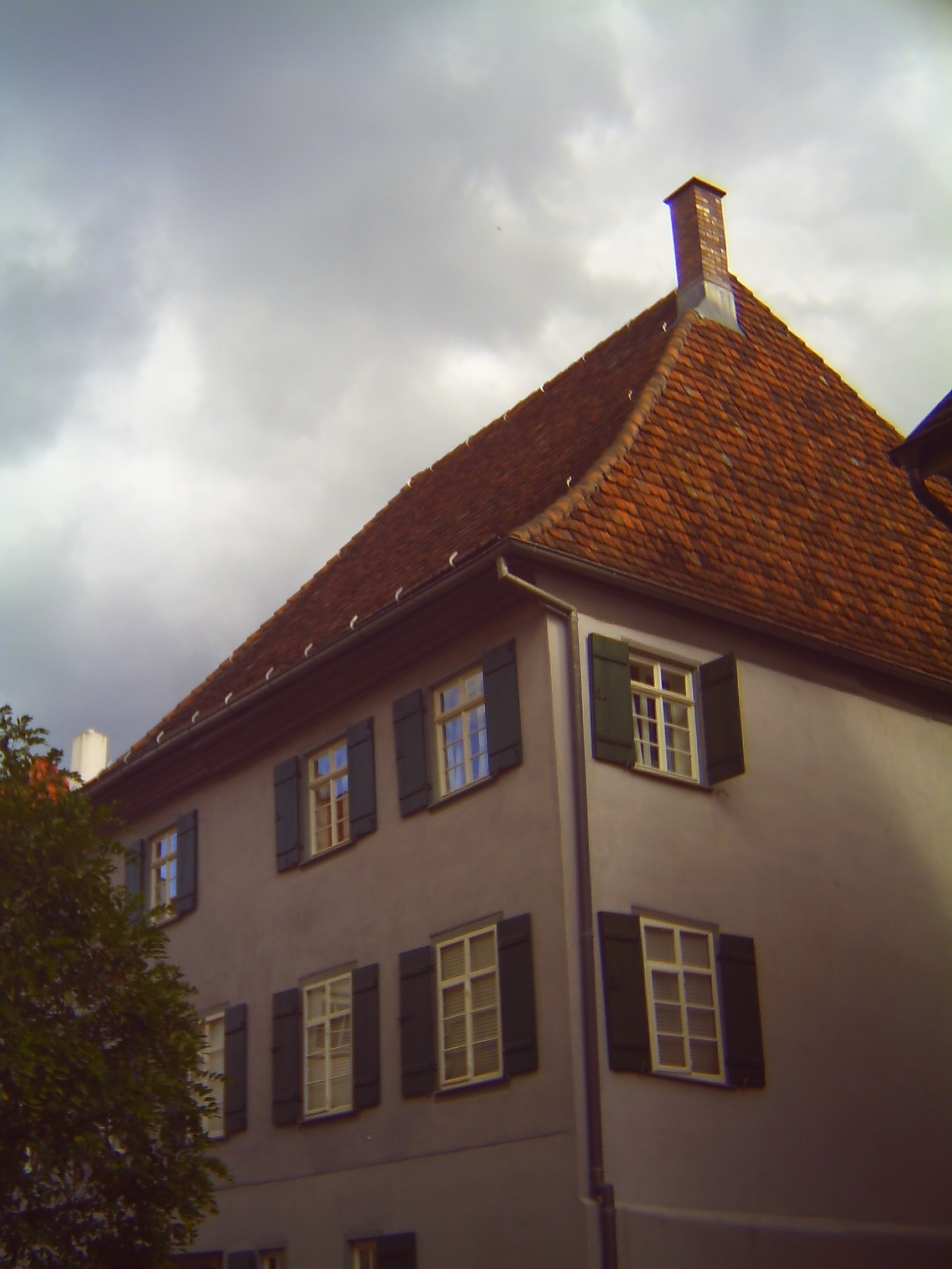 Typical roof in Tuttlingen